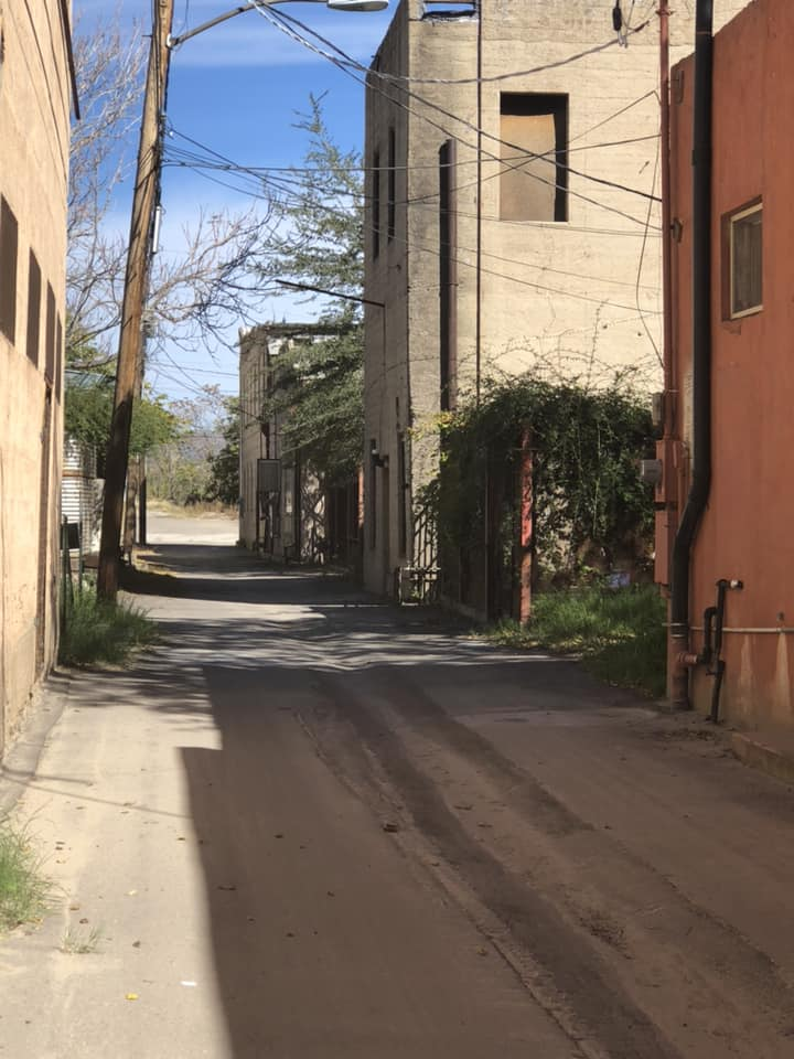 Sykes Alley in Historic downtown Miami, Az.